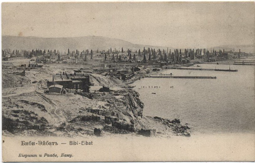 Old Baku. Открытка с изображением месторождения Биби-Эйбат (XIX век)